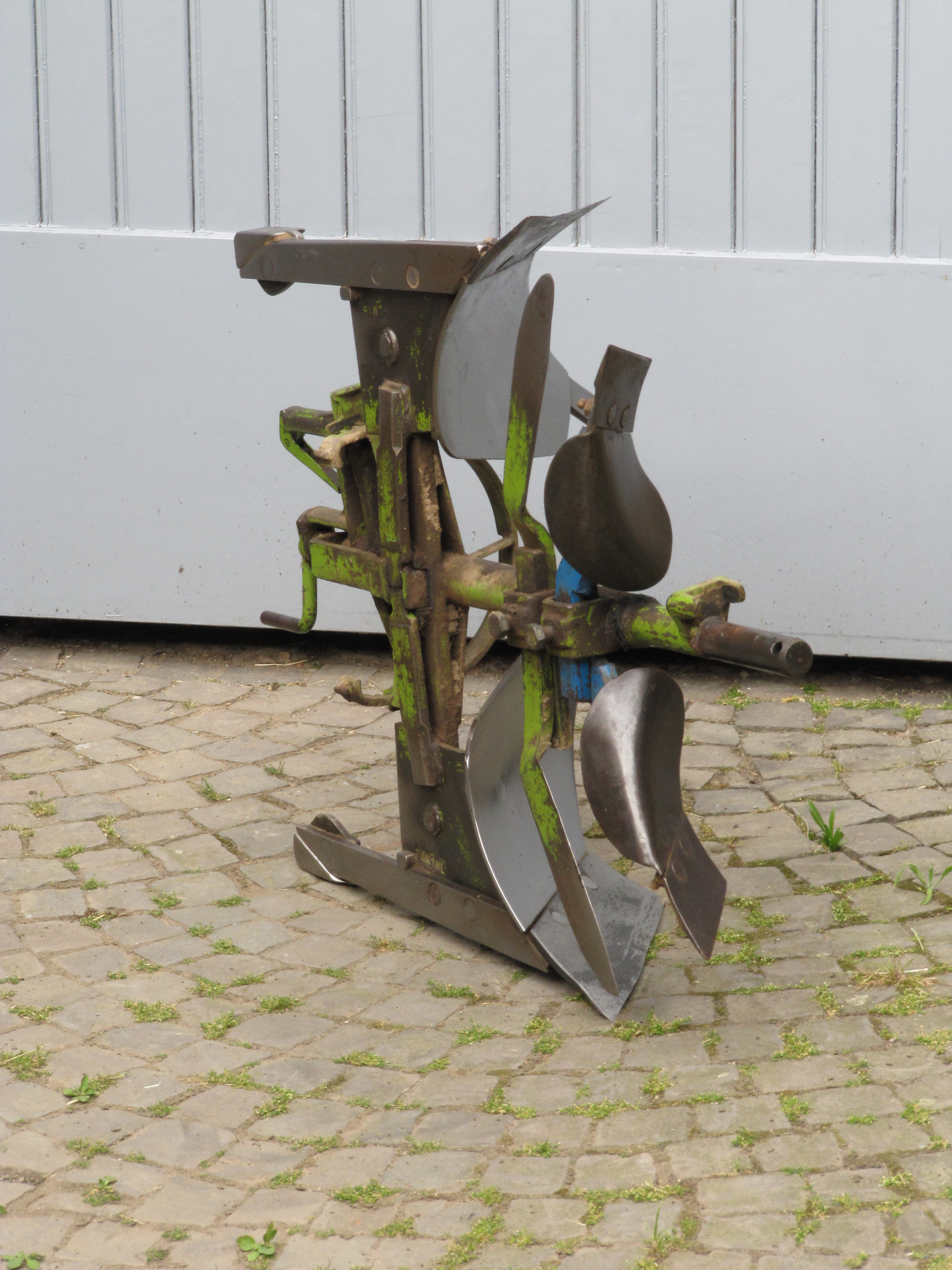 Plough for two-wheel tractor with 6.5–8 HP engine